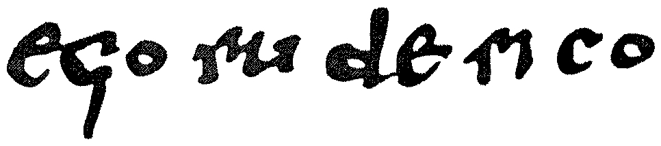 Autograph signature of Rodrigo Díaz, [also] called El Cid, in a document by him that [reflects that he] makes a donation to the Cathedral of Valencia. [The o]riginal [is] in [the] Archive of the Cathedral of Salamanca, box 43, list 2, number 72. It reads in Latin: ego ruderico, "I, Rodrigo".